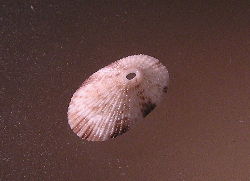 Diodora singaporensis, a keyhole limpet from the family Fissurellidae; Malaga, Spain